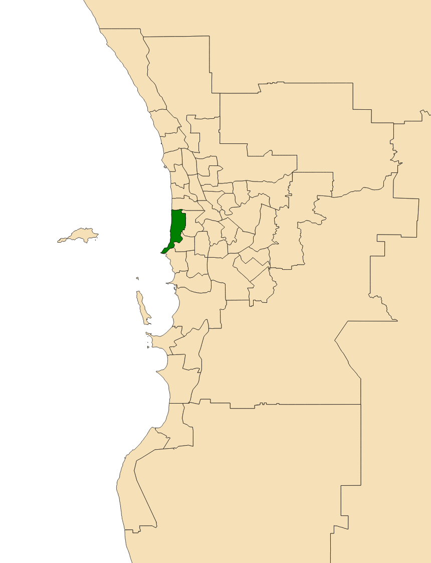 Location of the electoral district of Cottesloe in the Perth metropolitan area, Western Australia as of the 2017 WA state election.